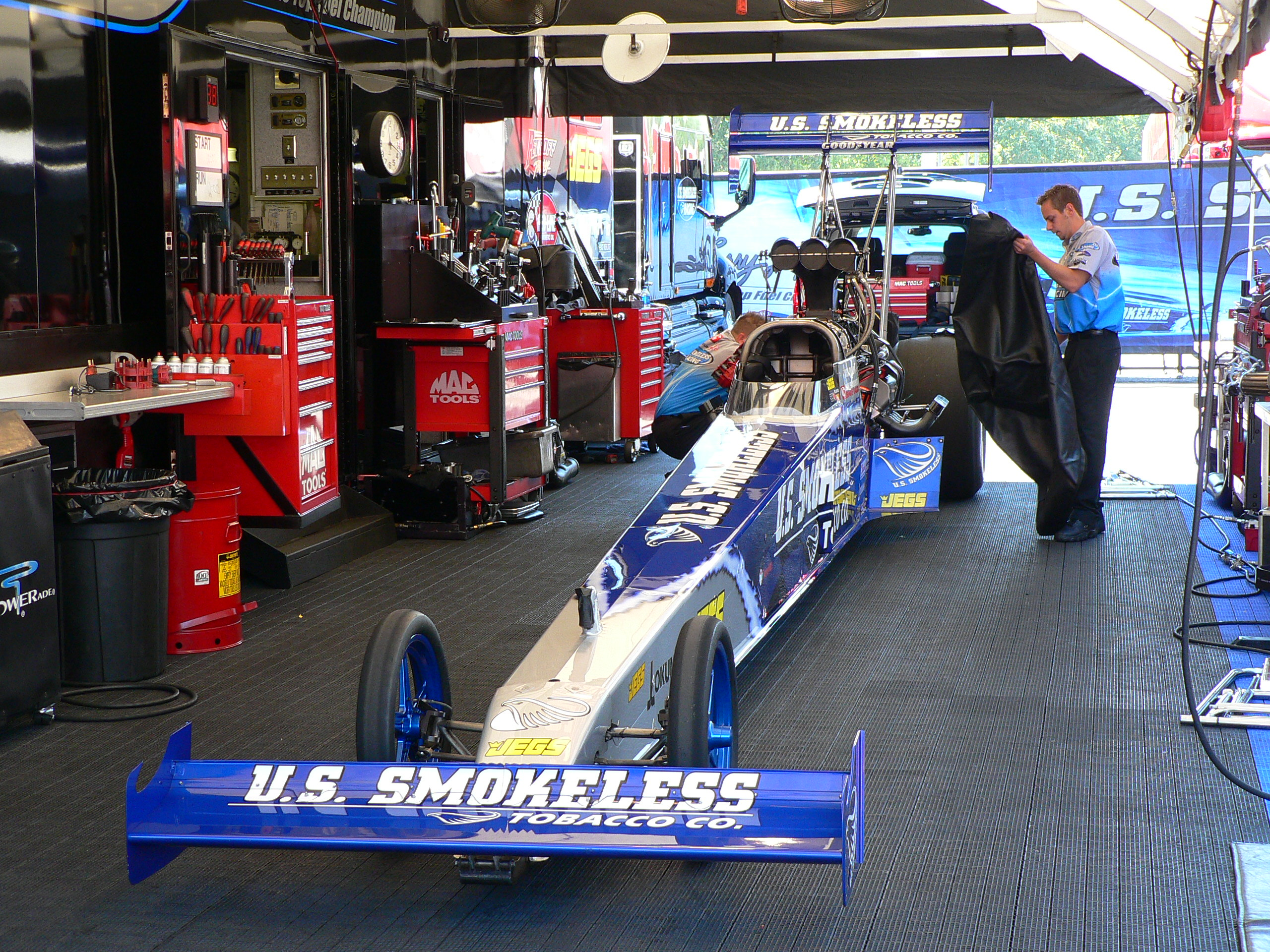 Larry Dixon (drag racer)'s 2008 Top Fuel Dragster right before race time.